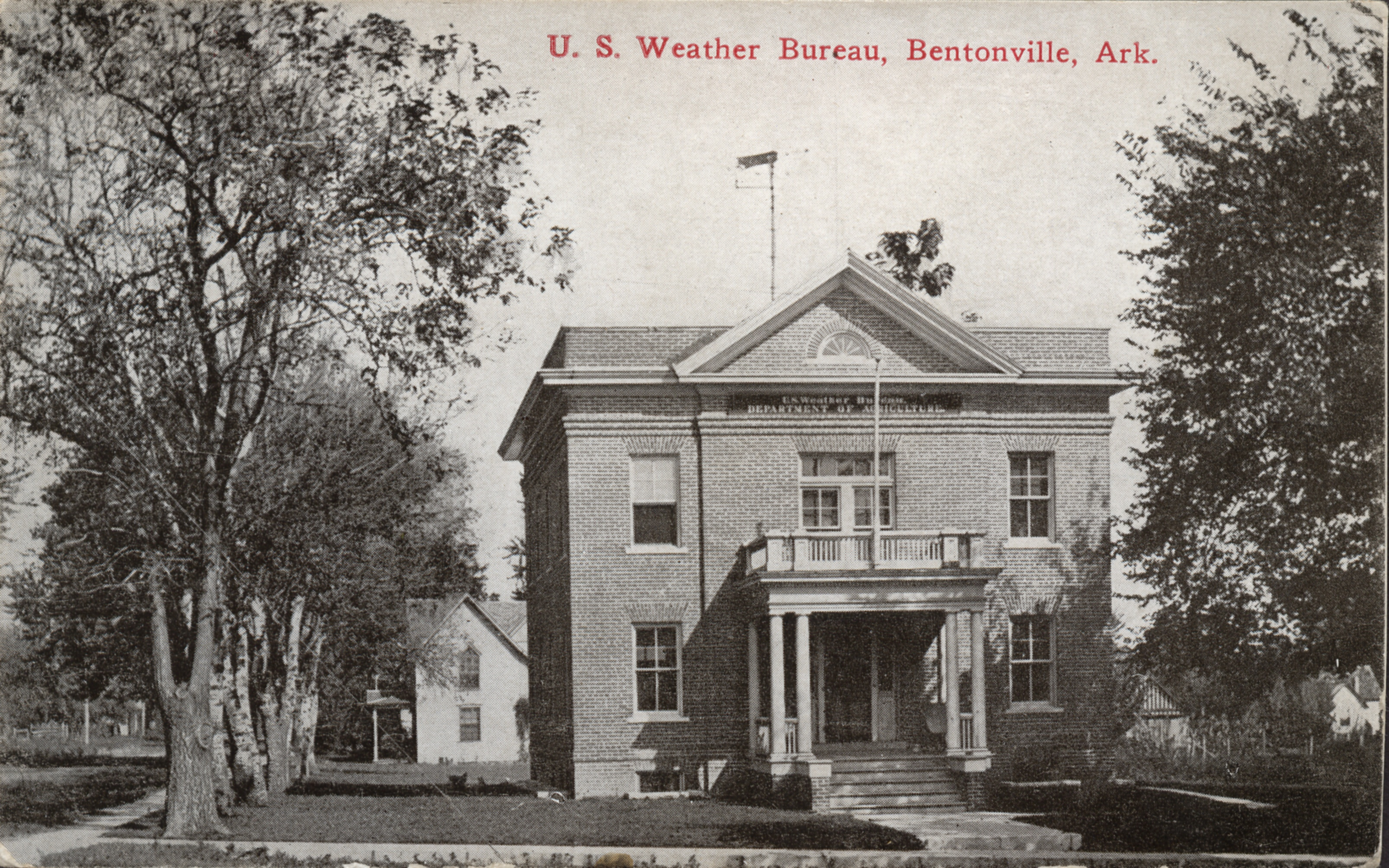 Postcard of the U.S. Weather Bureau Building at Bentonville, Arkansas. 1900 Circa.